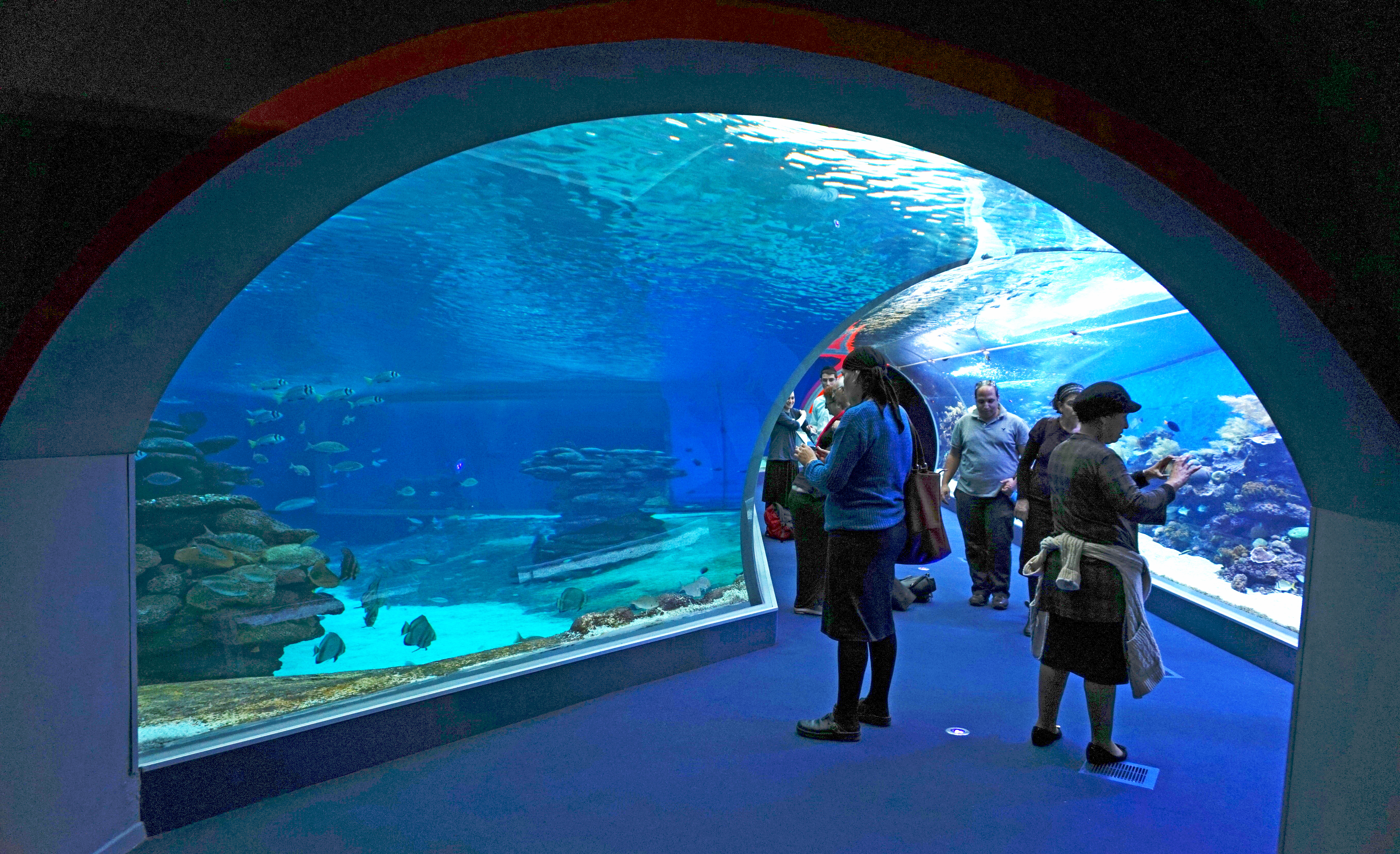 A shark pool in Underwater Observatory Marine Park, Eilat.This photograph was taken with a Sony ILCE-5000